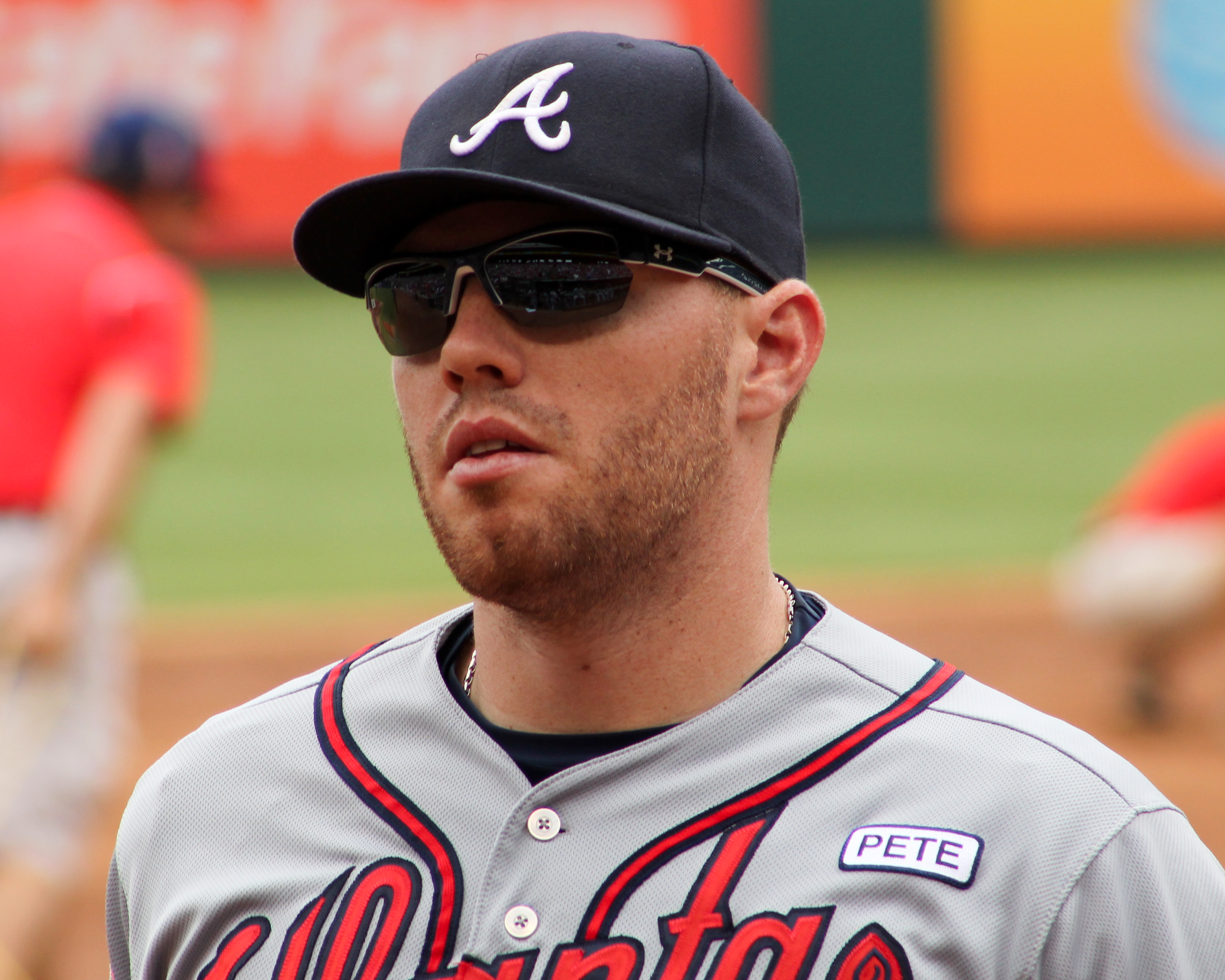 Professional baseball player Freddie Freeman plays a September 2014 game at Globe Life Park in Texas.